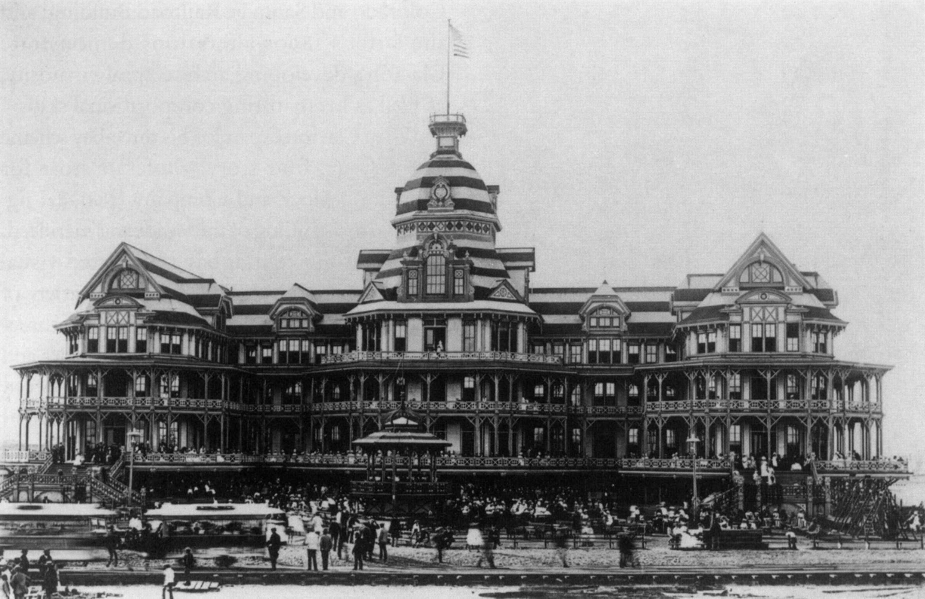 From source: "Beach Hotel, on Galveston Beach between Tremont St. and Twenty-fourth St., Galveston. Built 1882-83; Nicholas J. Clayton, architect; demolished after fire of 1898. Courtesy of Rosenberg Library, Galveston, Texas."